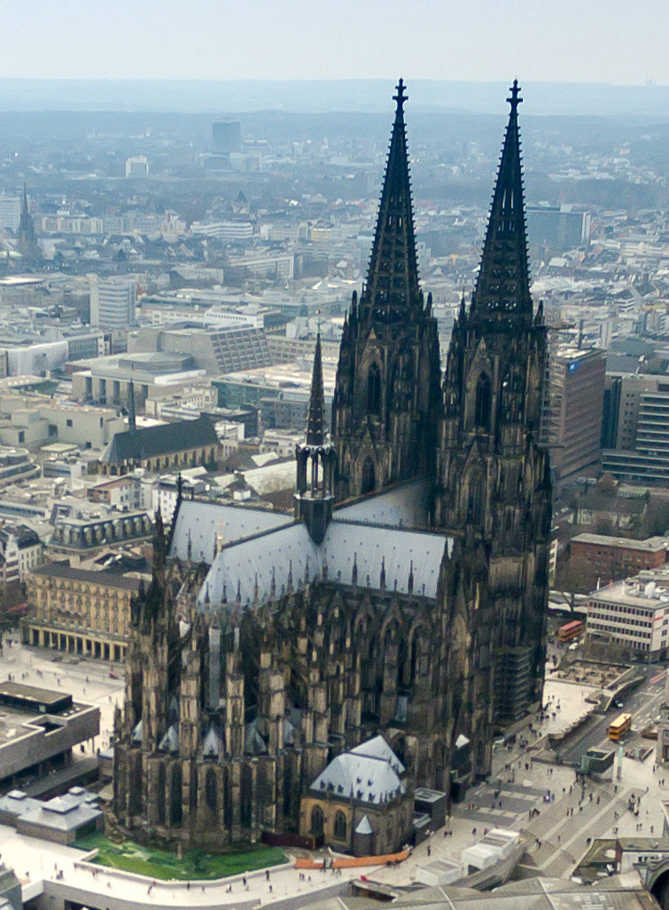 Cologne Cathedral, Rayonnant Gothic style, Cologne, Germany.